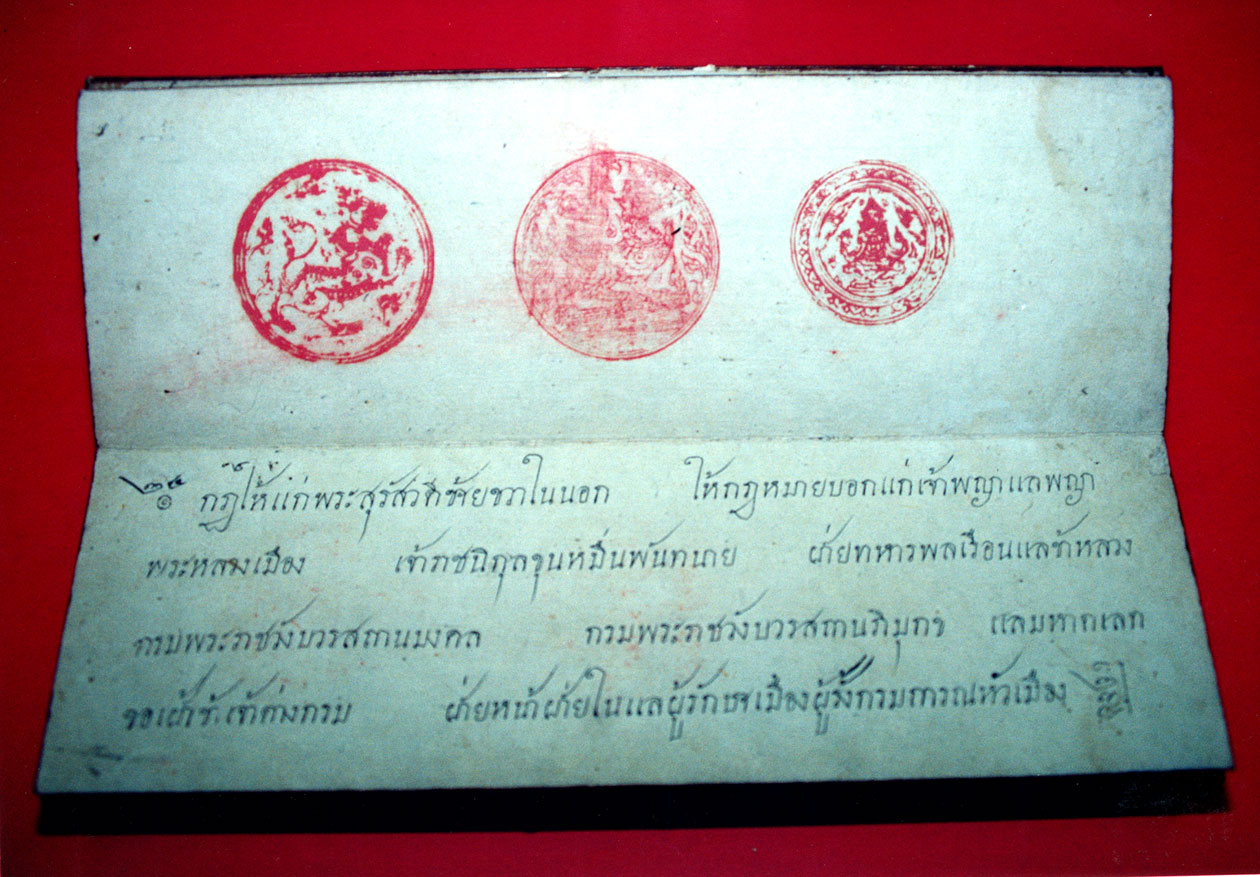 Pages of an ancient Thai notebook, in which inscribed the ancient Royal Decree to all sections of government officials. This Decree was a part of ancient Three-Seal Law (Kot Mai Tra Sam Duang), as the Three Seals were affixed on the page. The notebook was displayed at the Secretariat of the House of Representatives, Bangkok, May 2009.